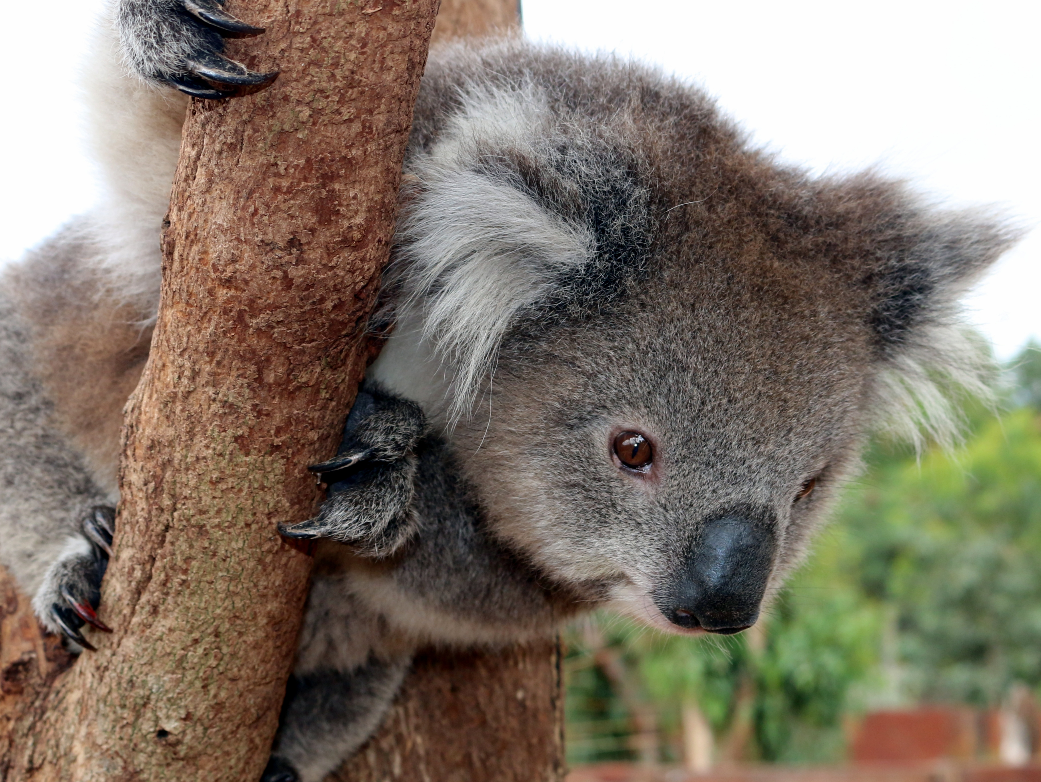 Koala @ Werribee Open Range Zoo, Melbourne, Australia, 2019 - Photo by Persian Dutch Network